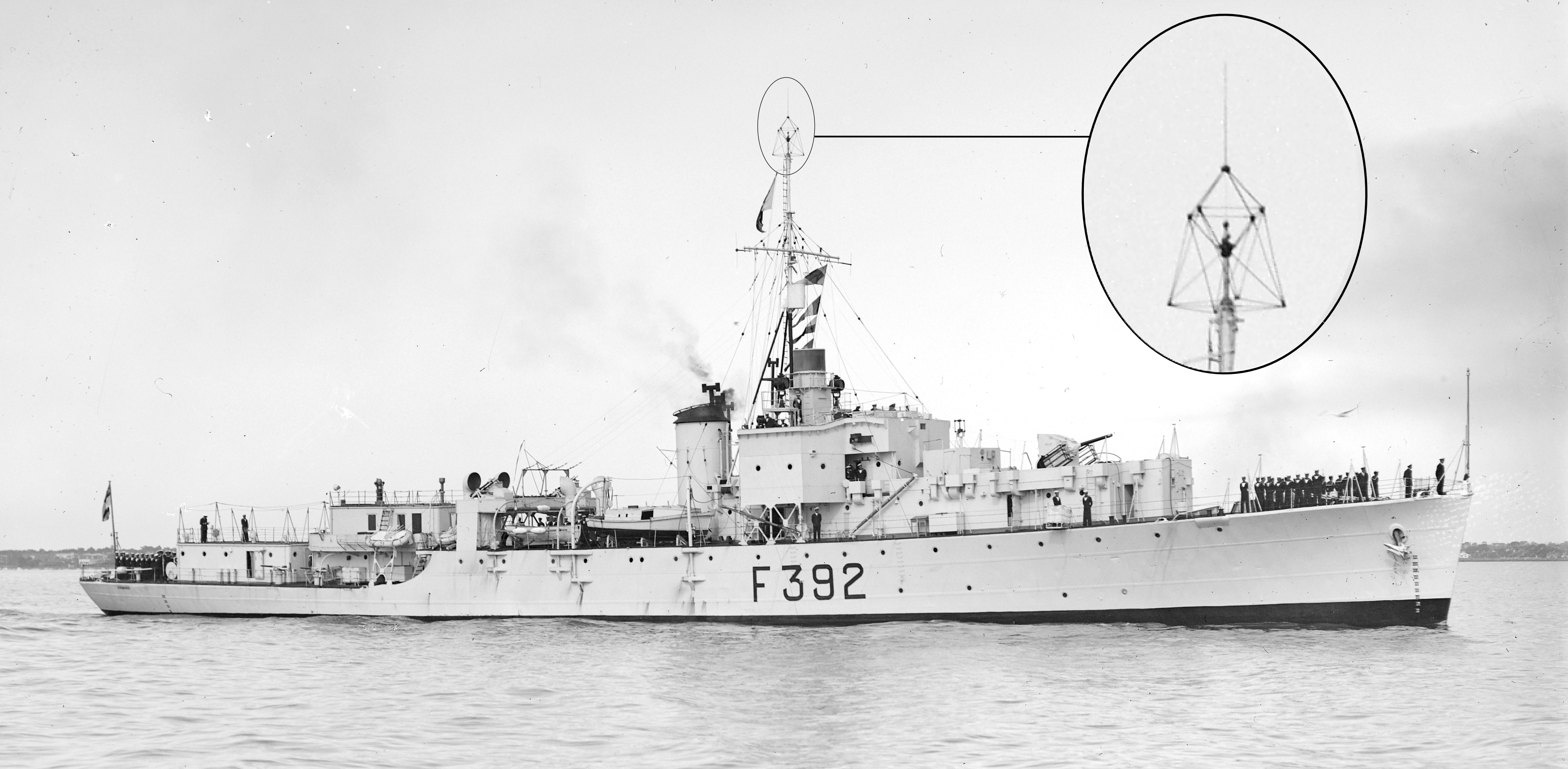 Frigate Shamsher belonging to Pakistan Navy visiting Australia. Detail on Huff-Duff aerial.